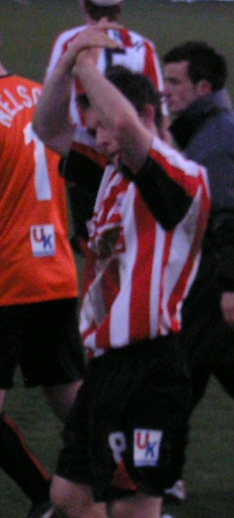 Brentford footballer Jay Tabb applauding supporters.